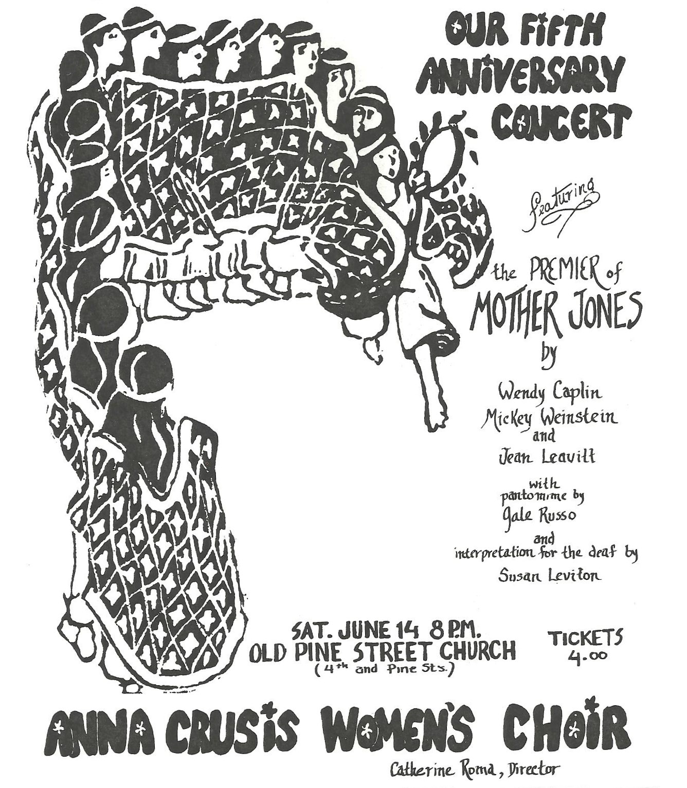 Poster for the June 14, 1980, Anna Crusis Women's Choir concert, created by artist Gale B. Russo. Her description of the image is as follows: "The image of women walking and singing starts with the women's backs to the viewer (in lower left corner of picture.) The line of women moves from the bottom of the page, up towards the top and turns to the right, moving across the top of the page, then turning to face the viewer and move downward. The lead woman is stepping lively with her left foot extended as she sings and shakes a tambourine. This image has the date of the concert that year, Saturday, June 14th, 8.00 p.m. at Old Pine Street Church. There is also another image (a woodcut) that was used as a leaflet to advertise a concert." This is one of many variants of the singing line of "Annas" that have been used on posters and other materials.